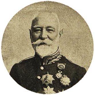 Manuel Afonso de Espregueira (1835 — 1917), Portuguese militaryman, peer, and government minister during the Constitutional Monarchy.